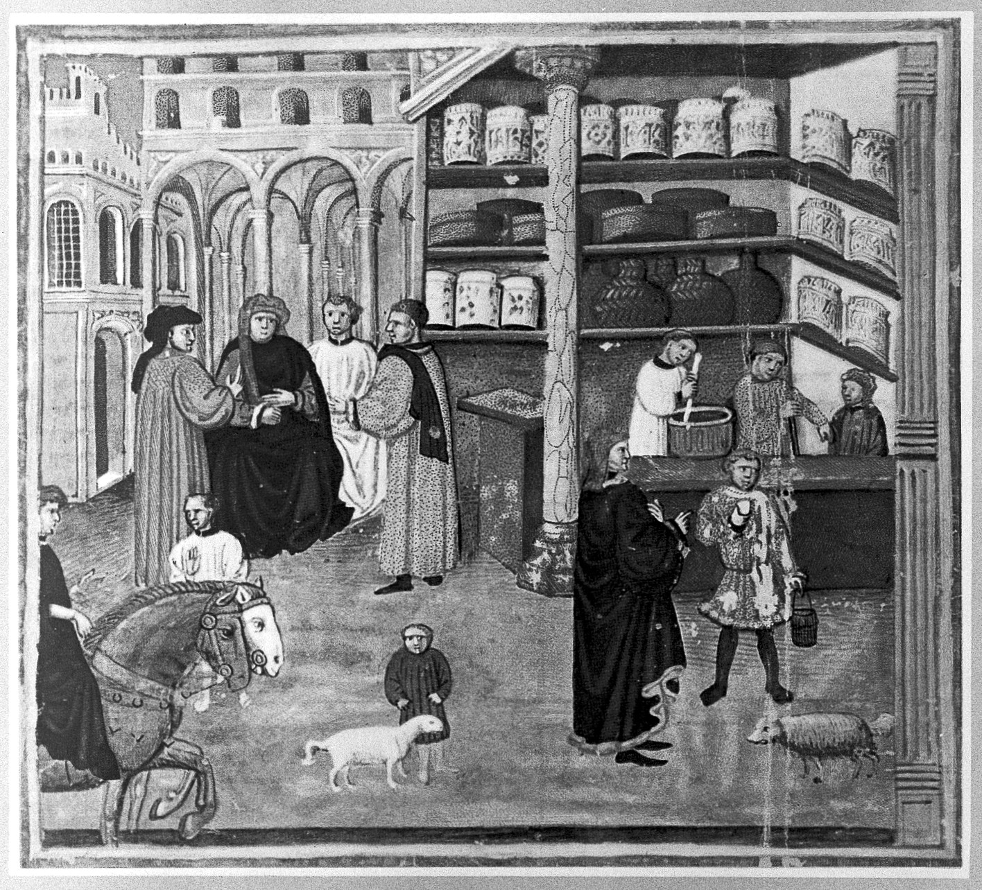 Avicenna expounding pharmacy to his pupils, from the 15th century "Great Cannon of Avicenna" General Collections Keywords: avicenna; gcp; slide 377